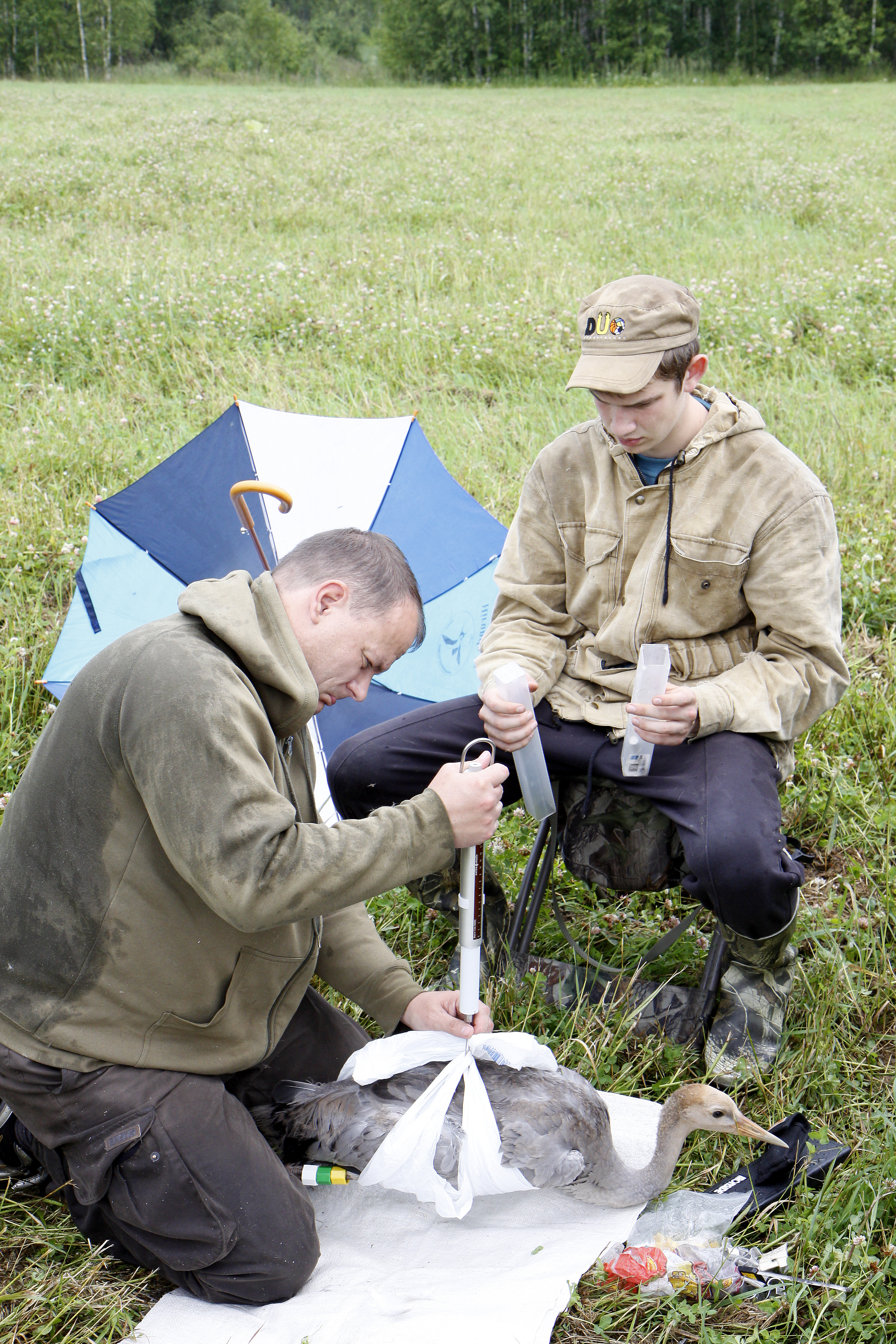 Measuring the weight of common crane (Grus grus) under Estonian University of Life Sciences research project that is lead by Aivar Leito. Ivar Ojaste ja Ott Sellis are on the photo.